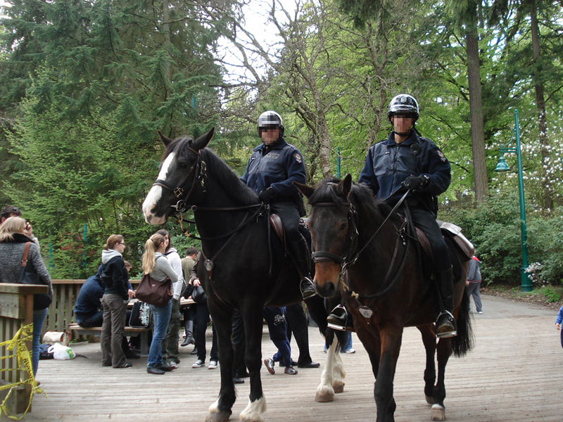 Vancouver police doing their rounds in Stanley park